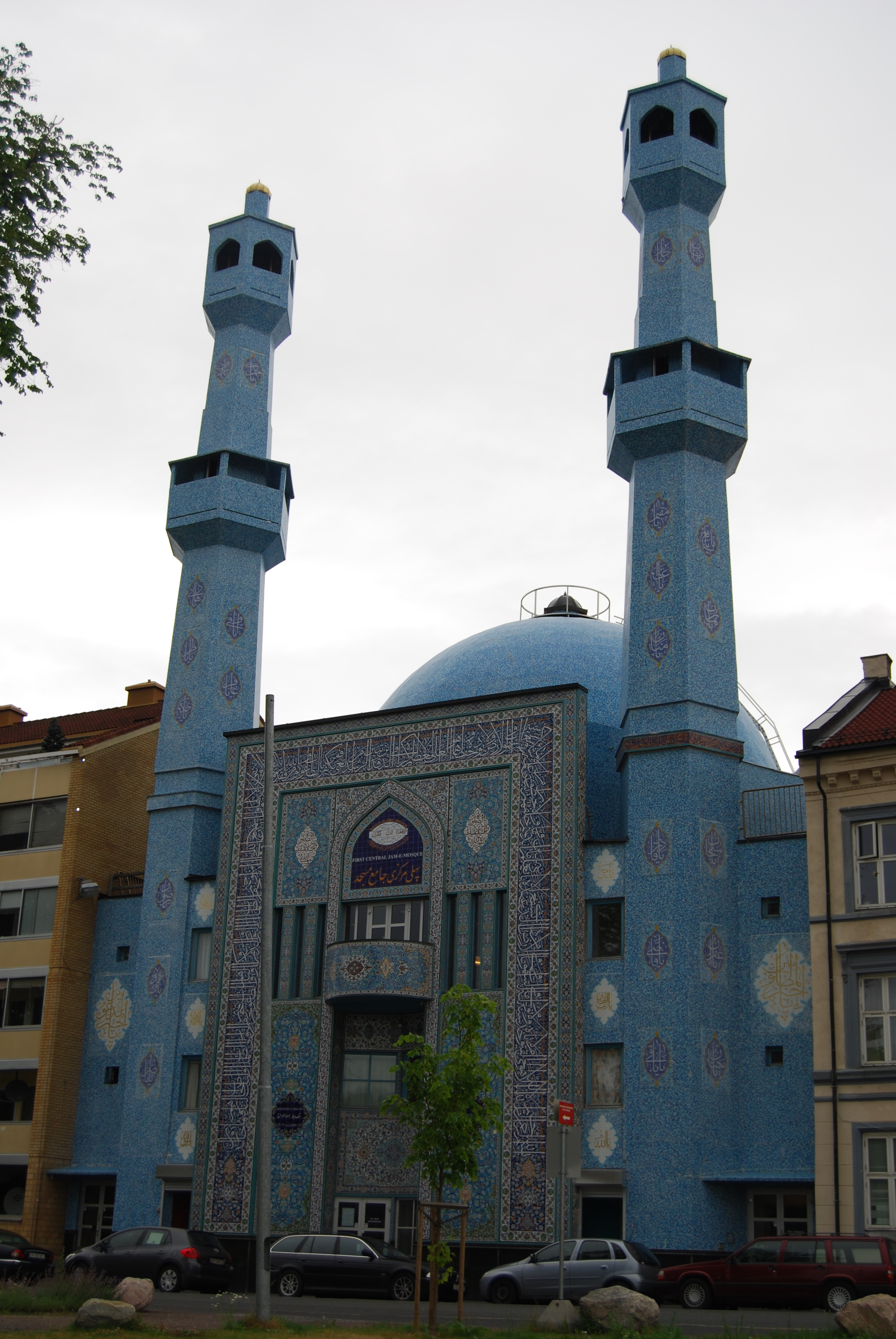 World Islamic Mission; Åkebergveien str. 28 b 0650 Oslo